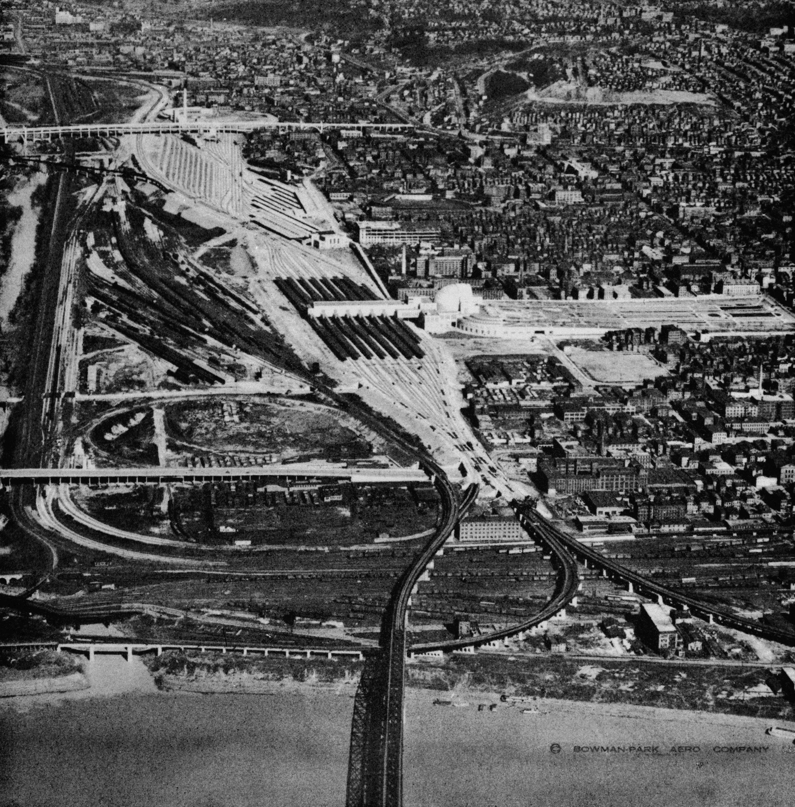 Photocopy of a lithograph from the 1932 terminal brochure, aerial view, north. - Cincinnati Union Terminal, Mail Handling Building, Bounded by McLean, Sherman and Liberty Avenues and Conrail Railroad, Cincinnati, Hamilton County, OH